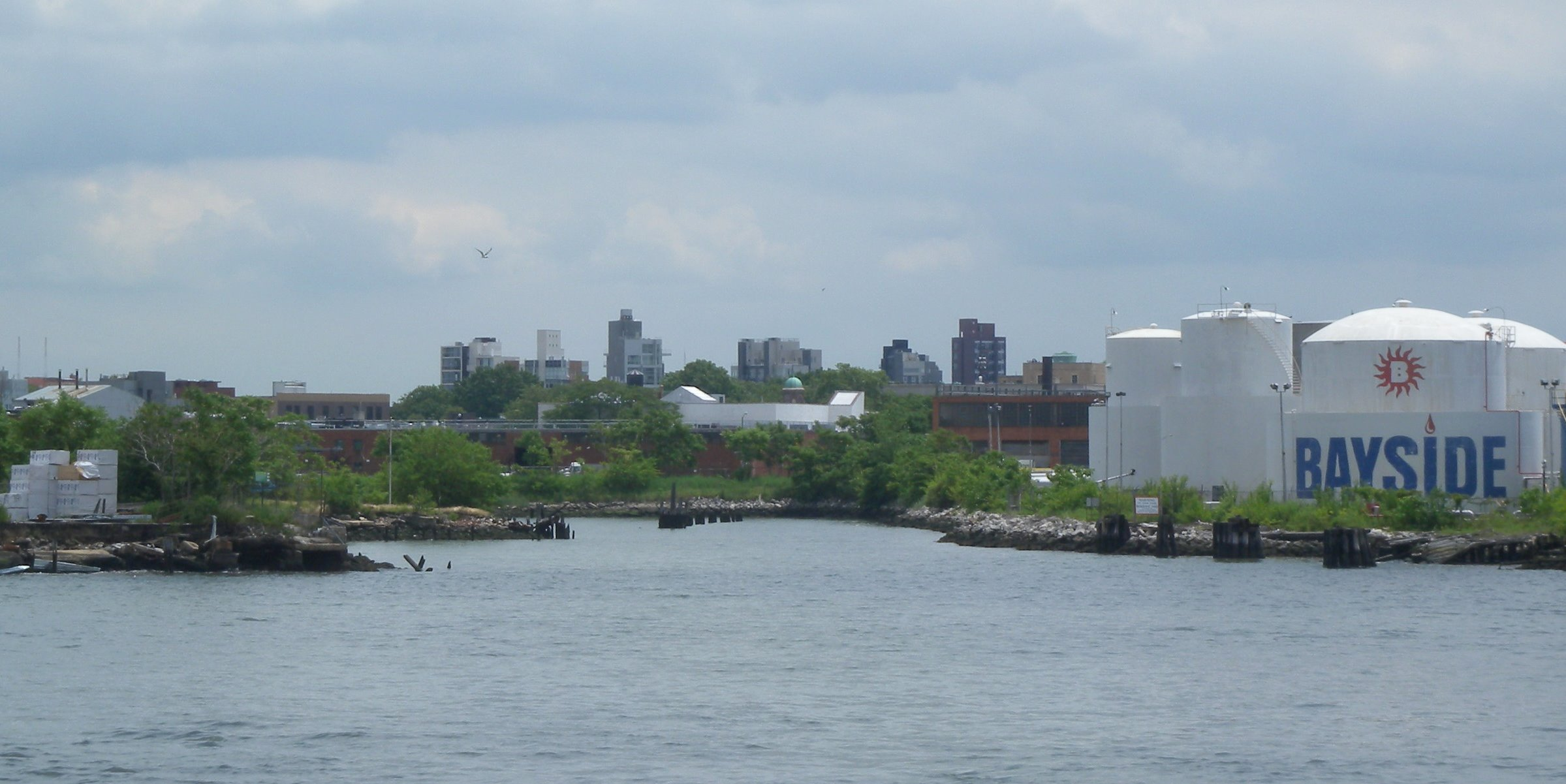 Looking east at Bushwick Inlet from a ferry on a mostly cloudy day.